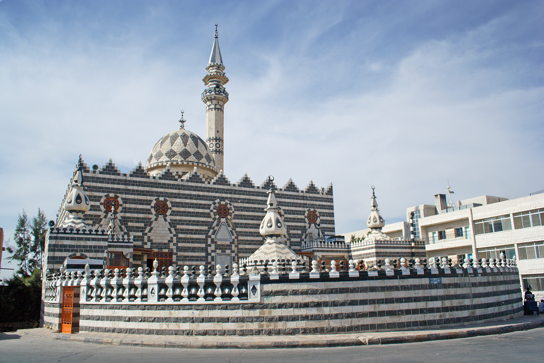 The Abu Darweesh Mosque in Amman, Jordan. The structure is famous for its unusual black-and-white stone in a striped pattern.